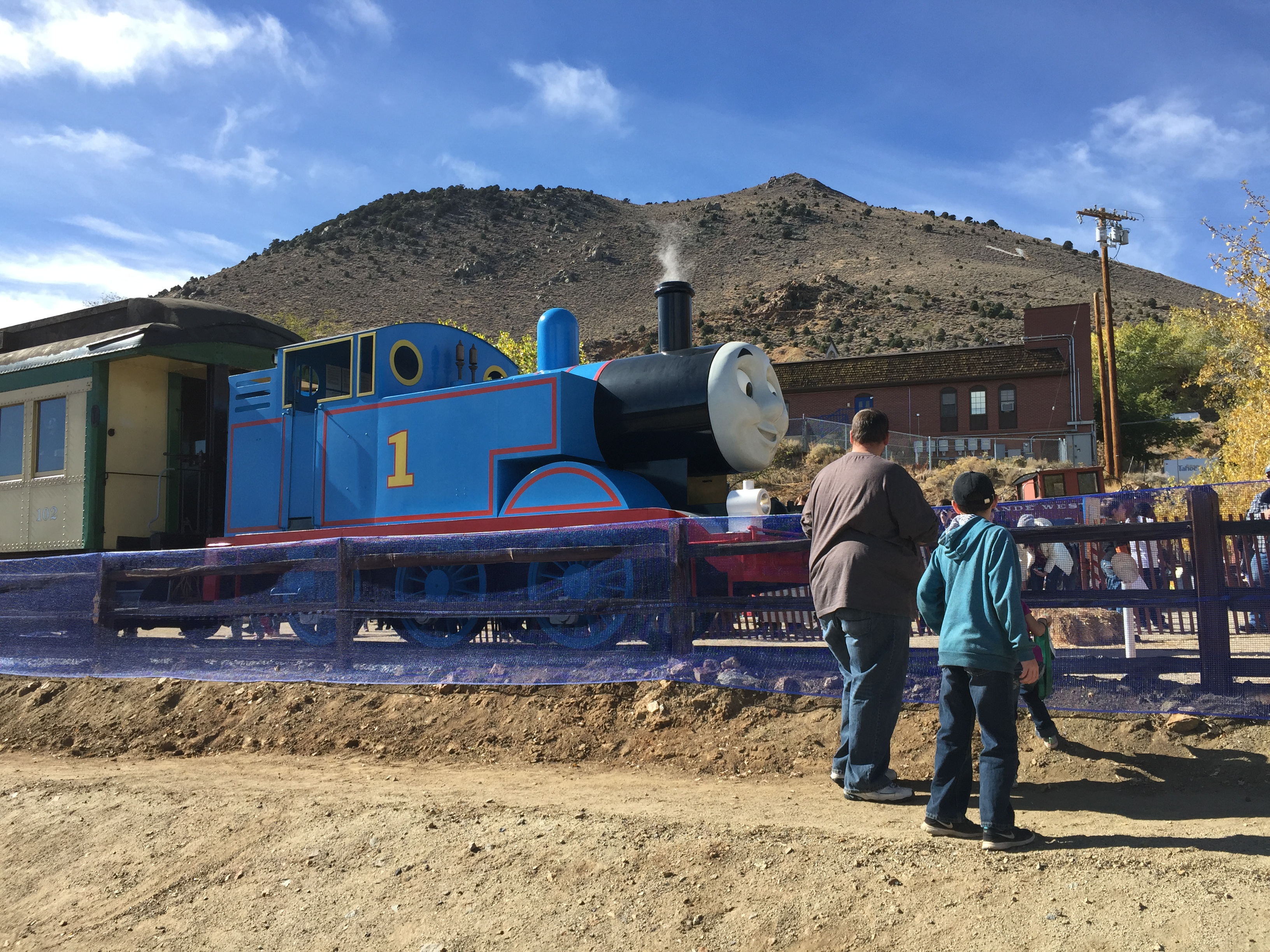 A life-size replica of Thomas the Tank Engine on the Virginia and Truckee Railroad in Virginia City, Nevada